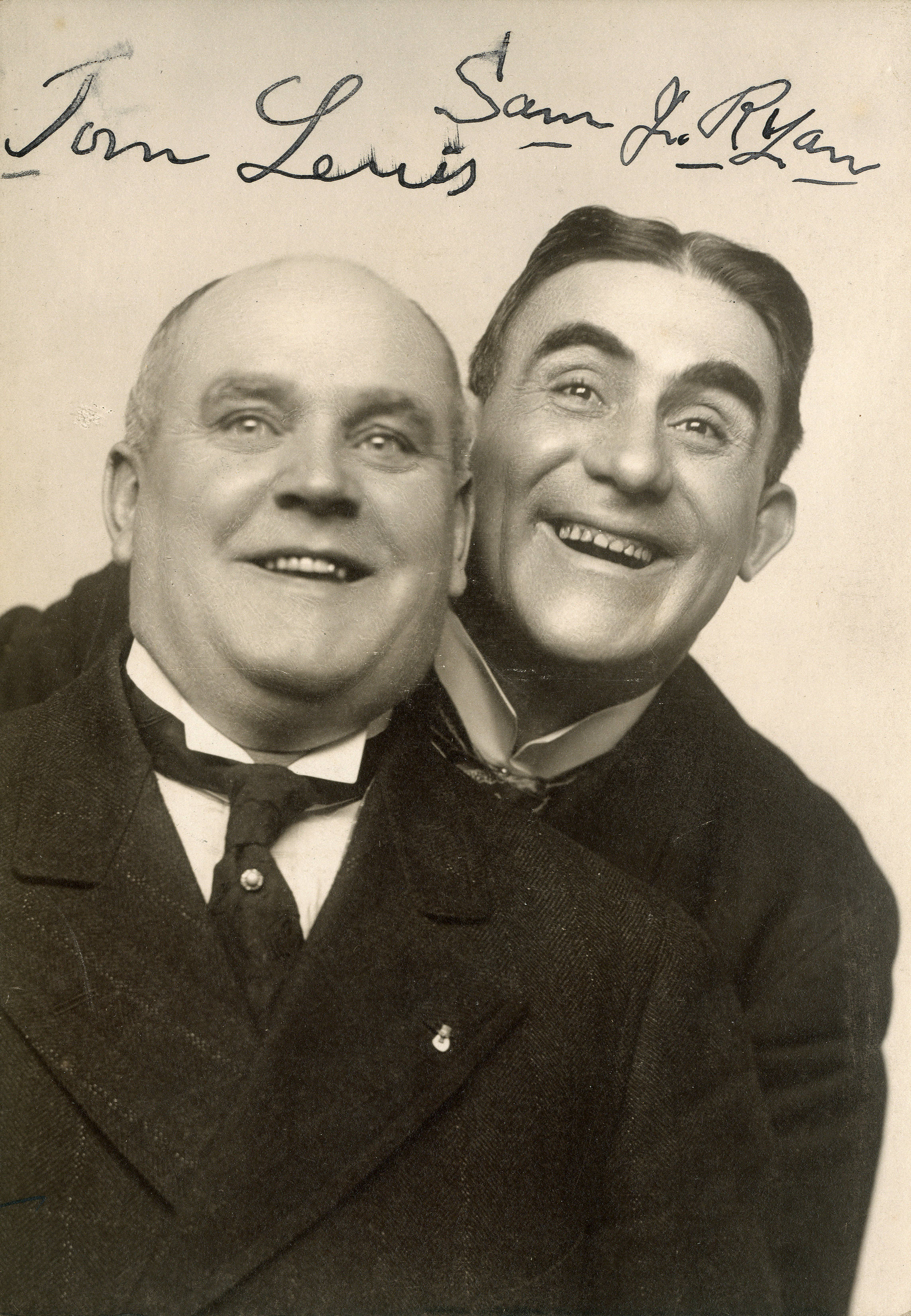 Tom Lewis and Sam Ryan who appeared in "Little Johnny Jones," which opened Mar. 4, 1906, at the Grand Opera House, Seattle. Inscribed by both performers. Subjects: plays, actors